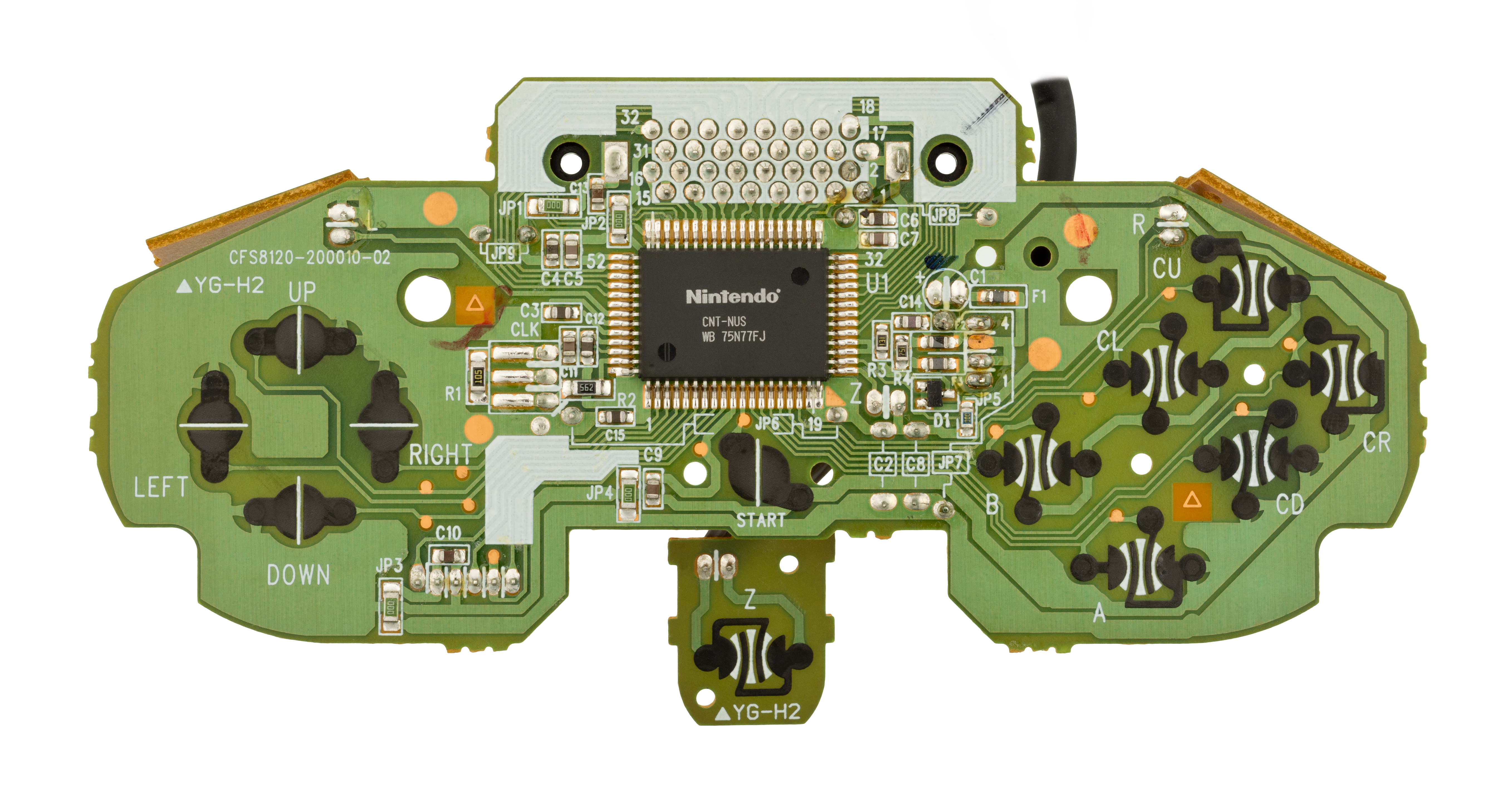 The top of a motherboard to a Nintendo 64 video game controller.